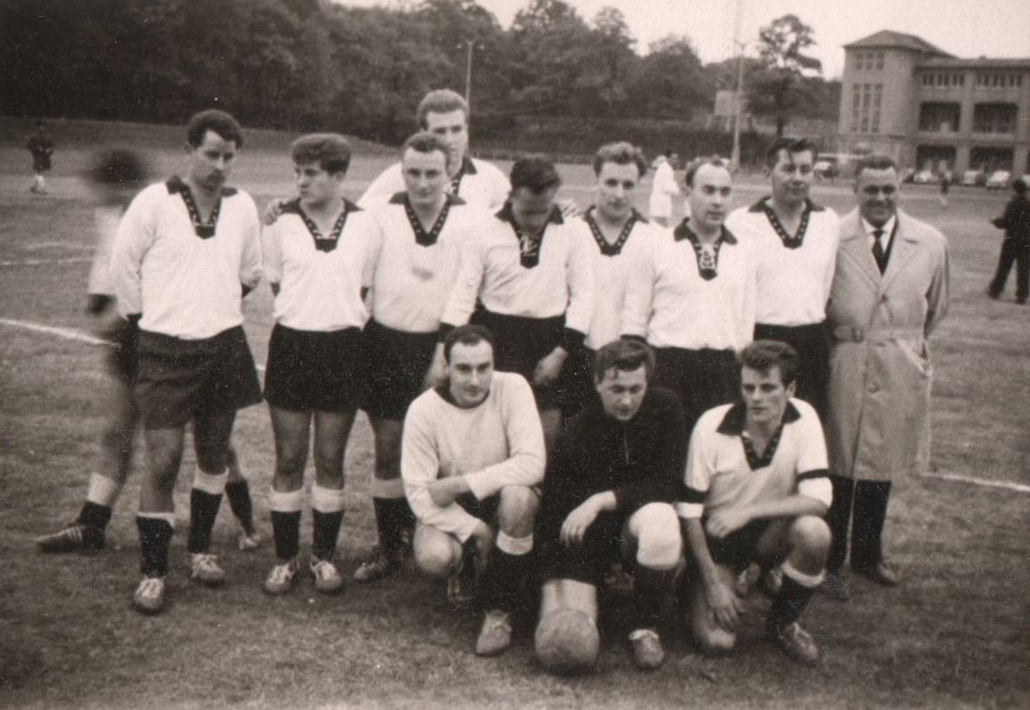 One of the photographs taken around or relating to the fur trade center Niddastrasse, Frankfurt am Main, Germany.